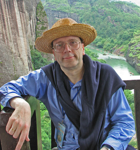 Professor Yvo Desmedt in Wuyisan, China. 24 June 2007. Photographed by Scott Contini.